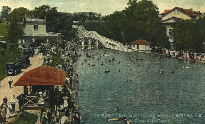 Postcard photo of another view of the Hersheypark swimming pool.